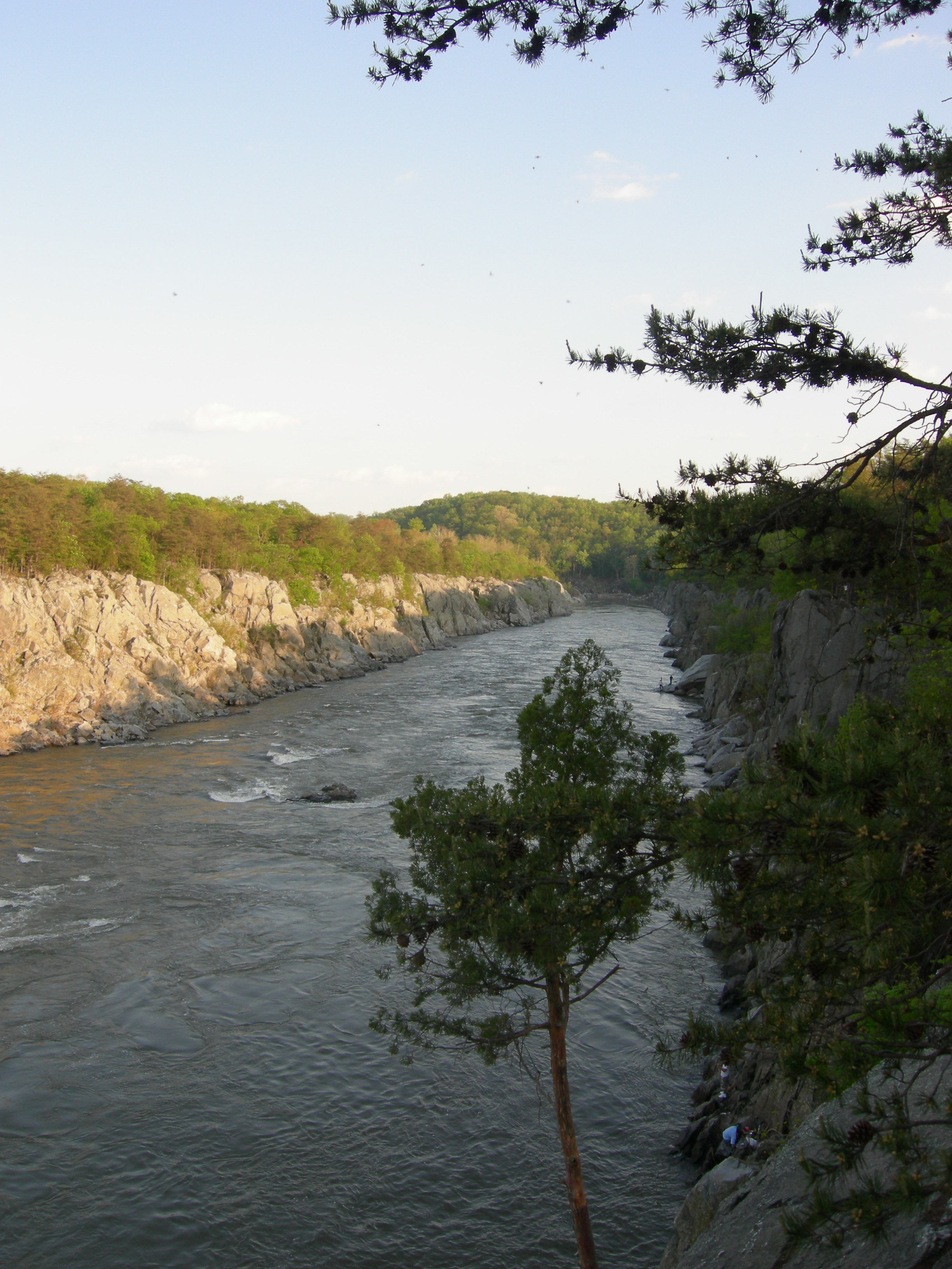 View of the Potomac River's Mather Gorge from Great Falls Park.